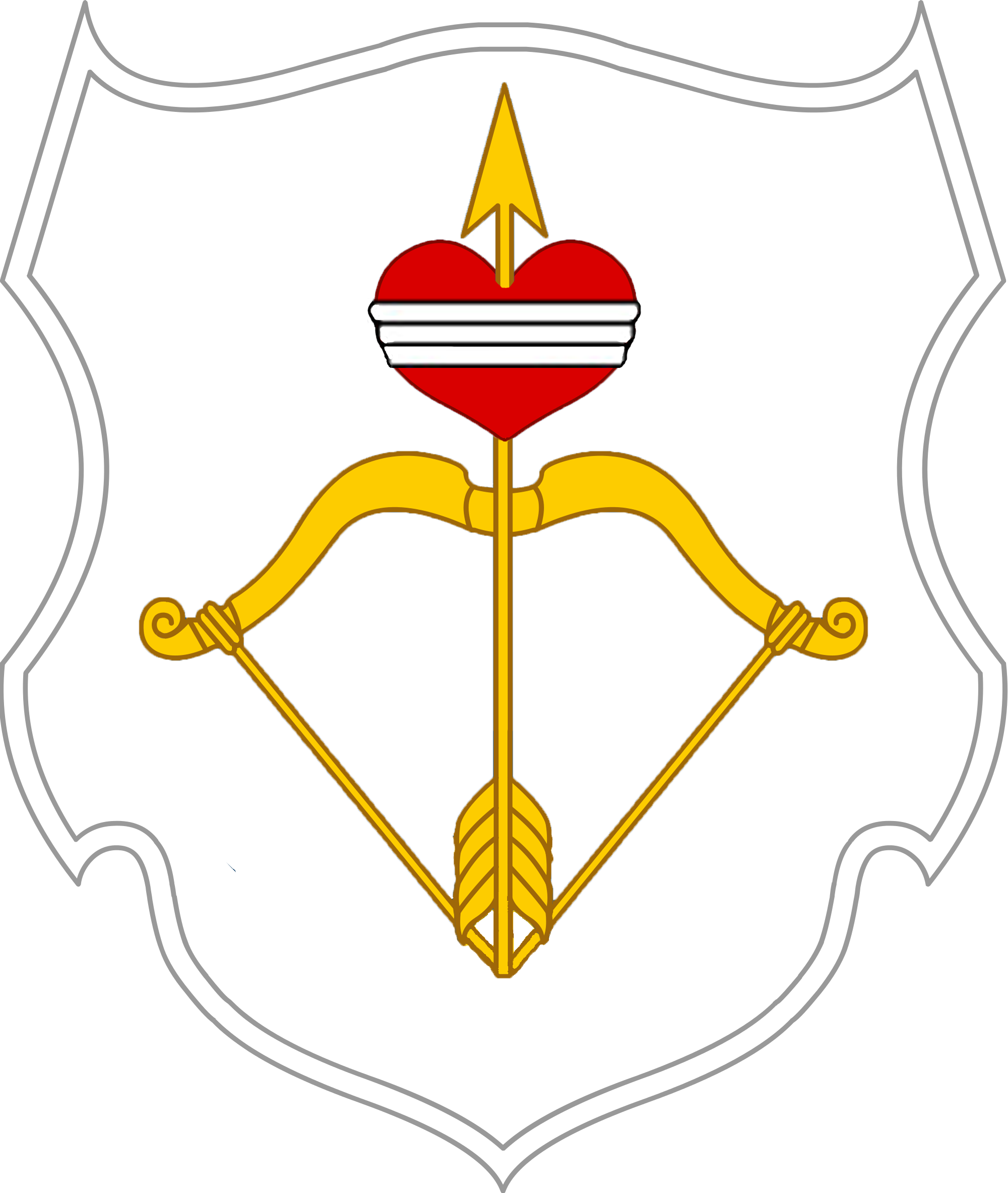 Coat of arms of the Poltava regiment